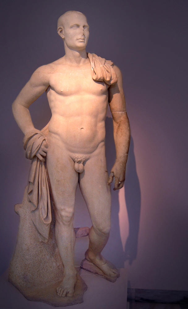 The so-called Pseudo-athlete of Delos, an ancient Roman sculpture combining a realistic portrait with an idealised (athletic) body. Found in Delos, in the "House of the Diadoumenos", dates from around 80 AD. Currently on display in Room 31 of the National Archaeological Museum in Athens, Nr 1828.